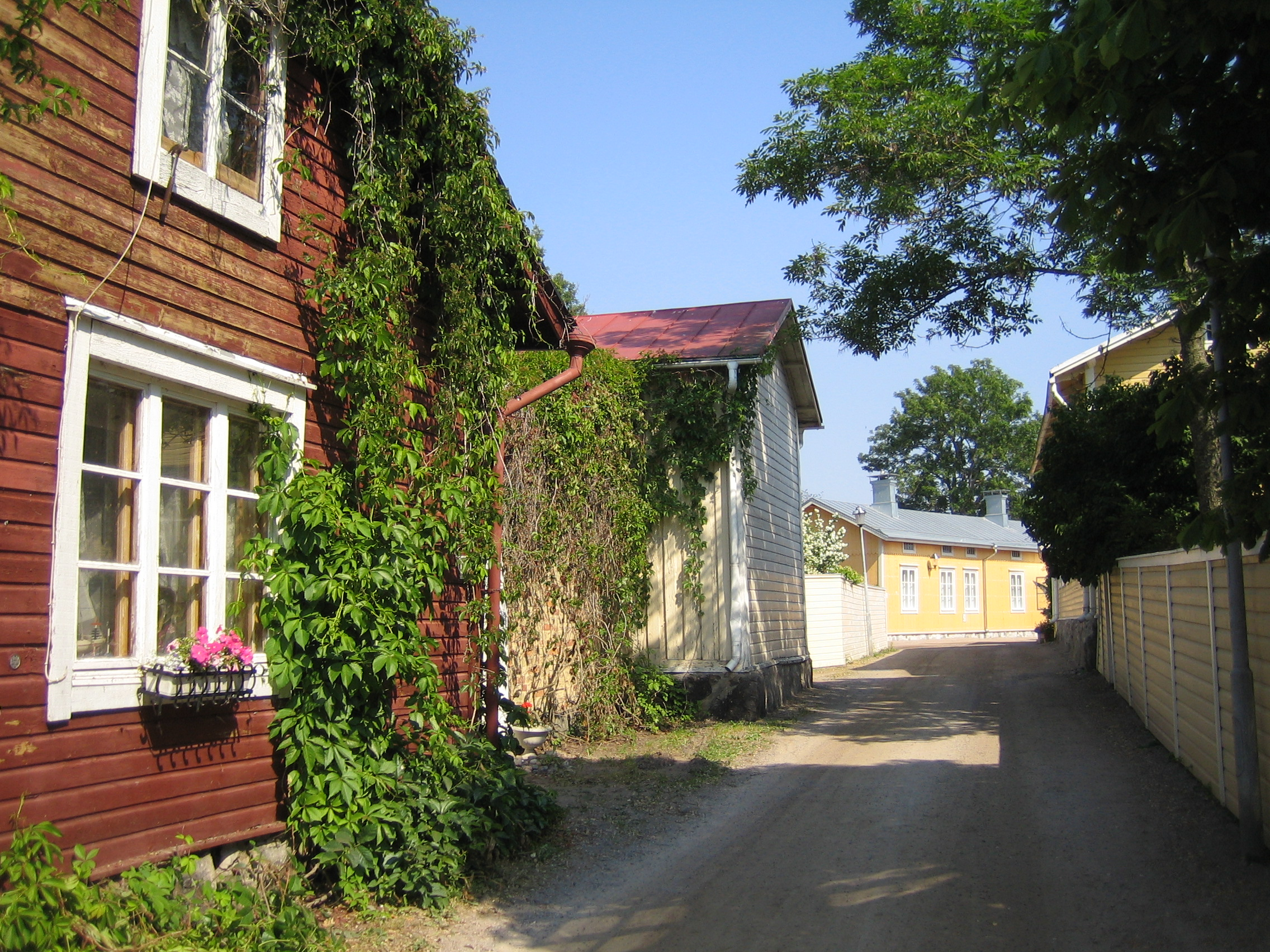 Old town, Ekenäs, Finland.